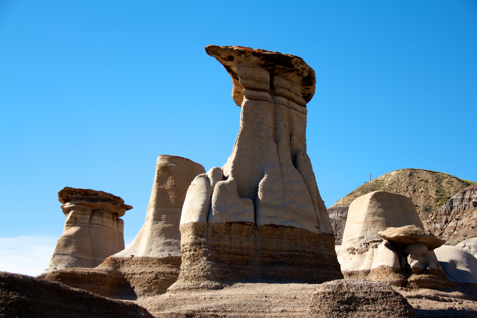 Detail of the rock formations at the Hoodoos.